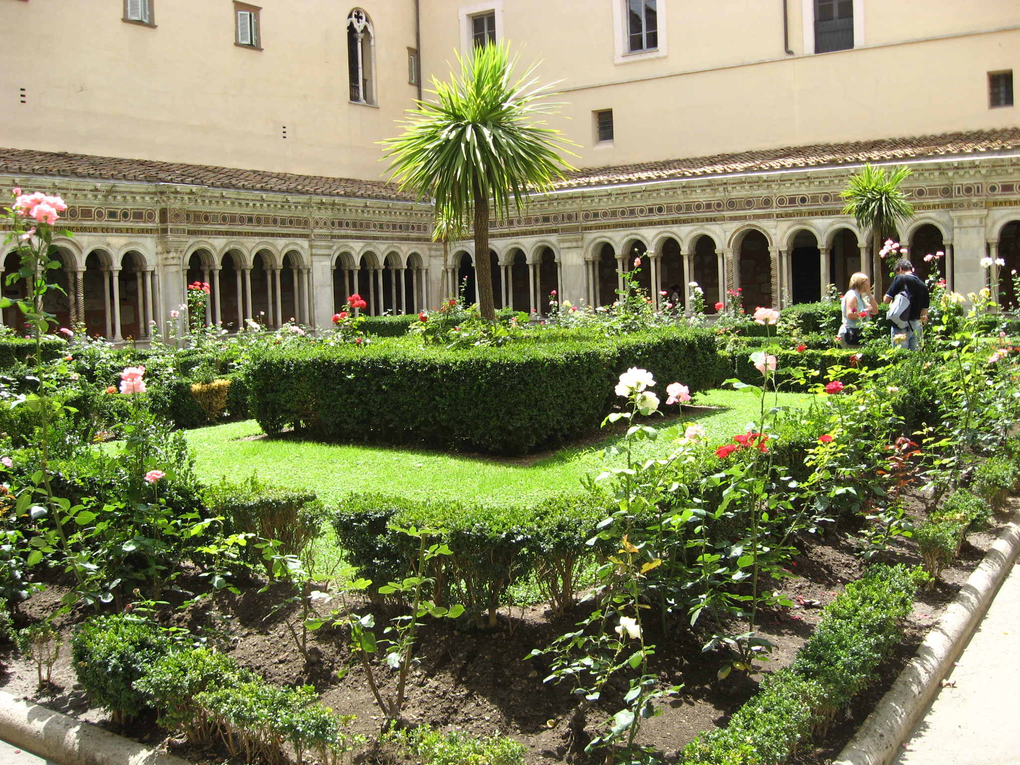 Cloister of St. Paul outside the Walls, Rome